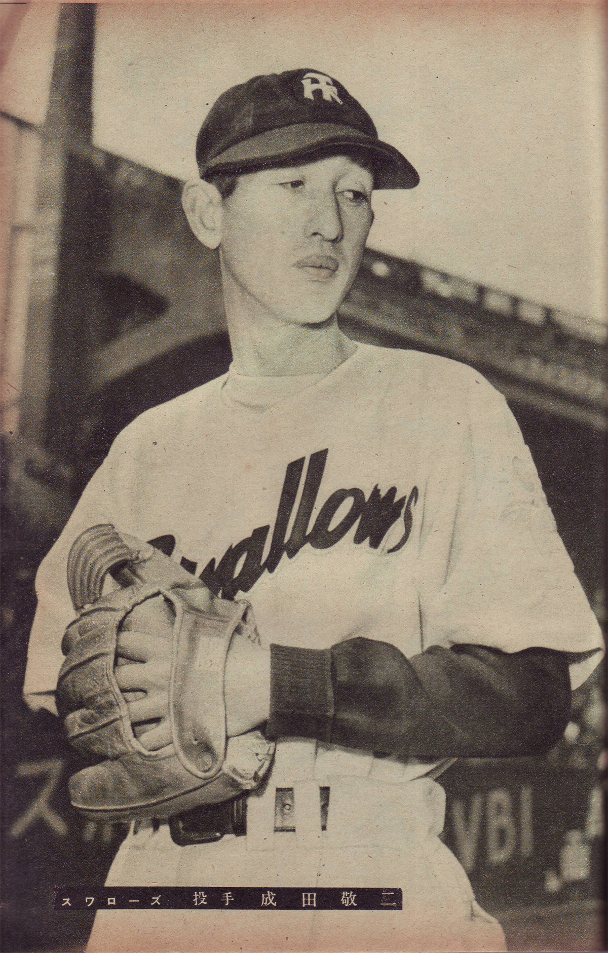 Keiji Narita (Kokutetsu Swallows). taken in 1950.